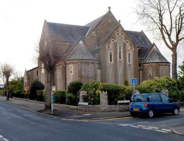 SE corner of St. Joseph's RC church, Penarth. This is the Wordsworth Avenue / Fairfield Road corner of the Roman Catholic church built in 1914-1915 to replace the original mid-Victorian RC church elsewhere in Penarth.